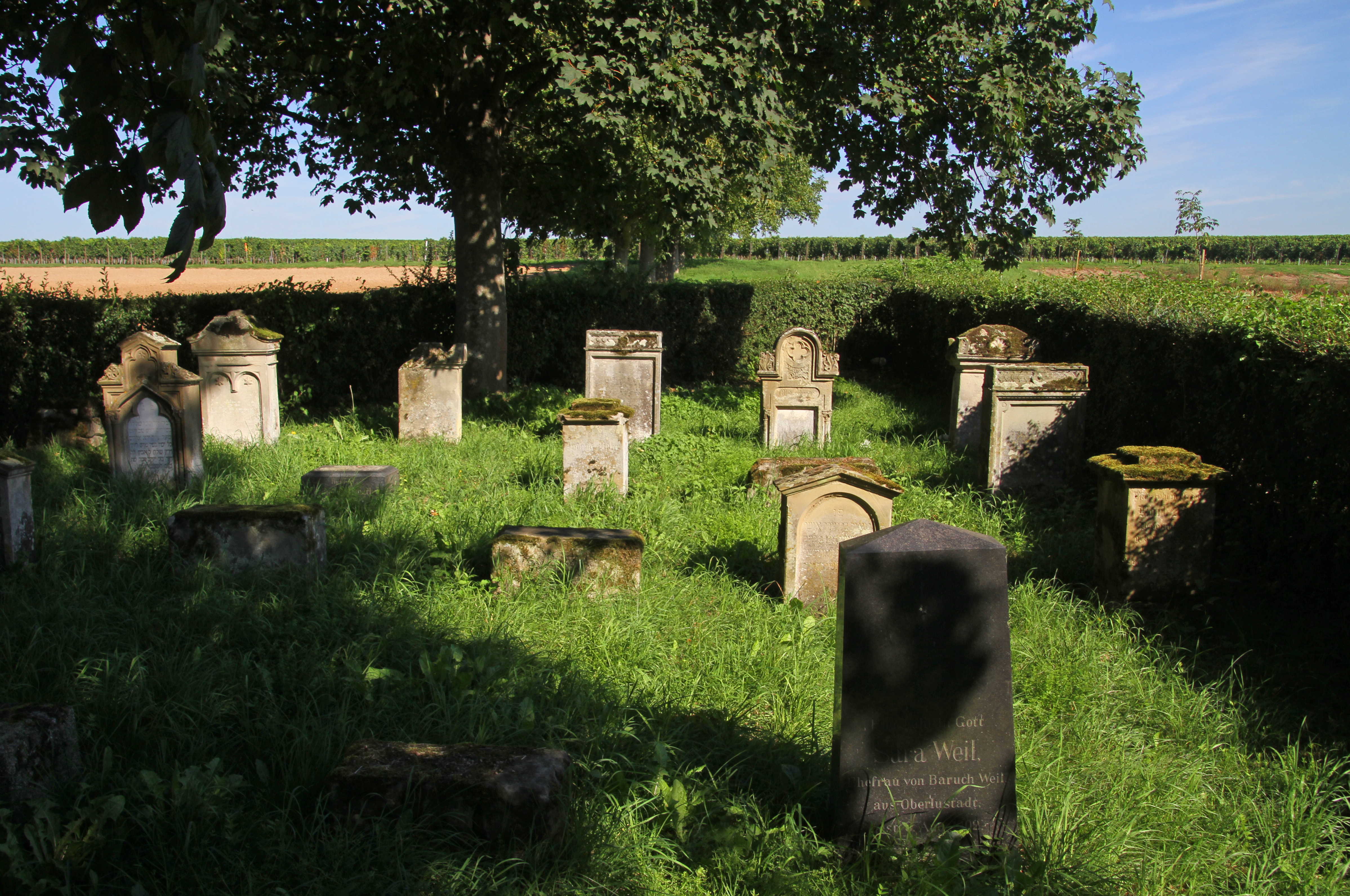 Jewish cemetery Lustadt